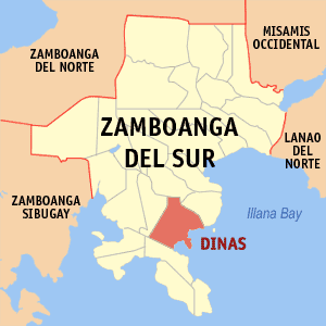 Map of Zamboanga del Sur showing the location of Dinas, Zamboanga del Sur.